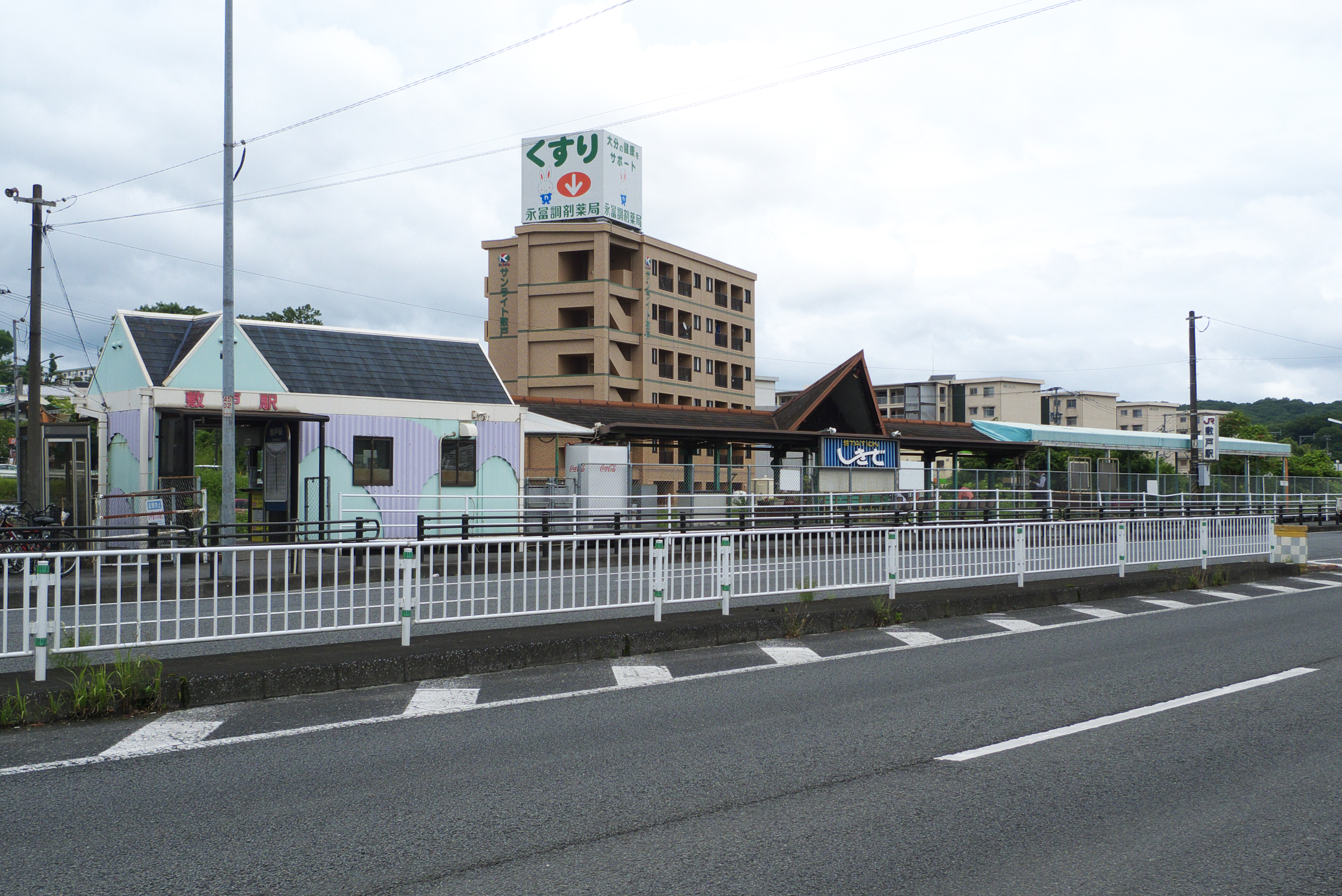 Shikido Station on the JR Kyushu Hohi Main Line in Oita City, Oita Prefecture, Japan